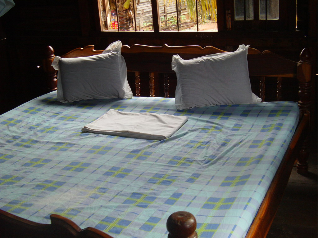 Homestay bedroom in Banteay Chhmar.